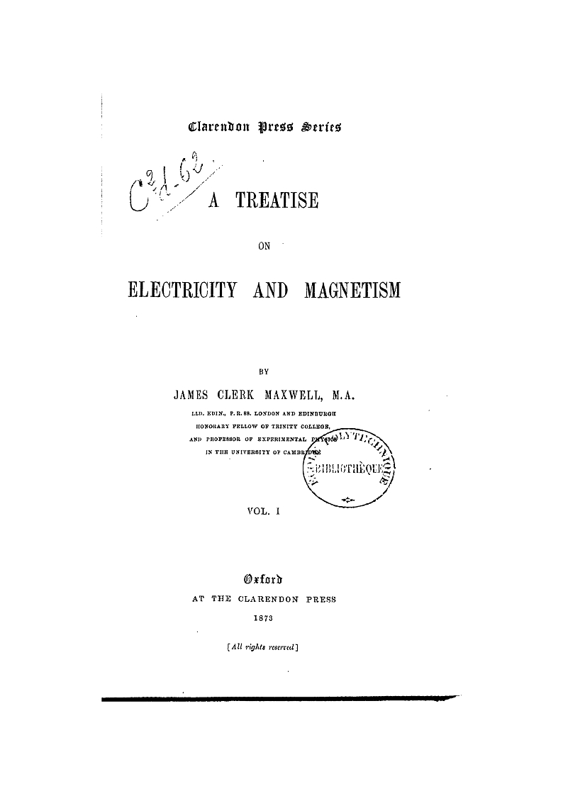 Maxwell, James Clerk: A Treatise on Electricity and Magnetism.